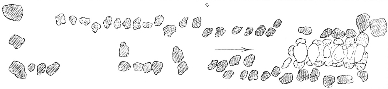 Outline of the dolmen Steinfeld, Saxony-Anhalt